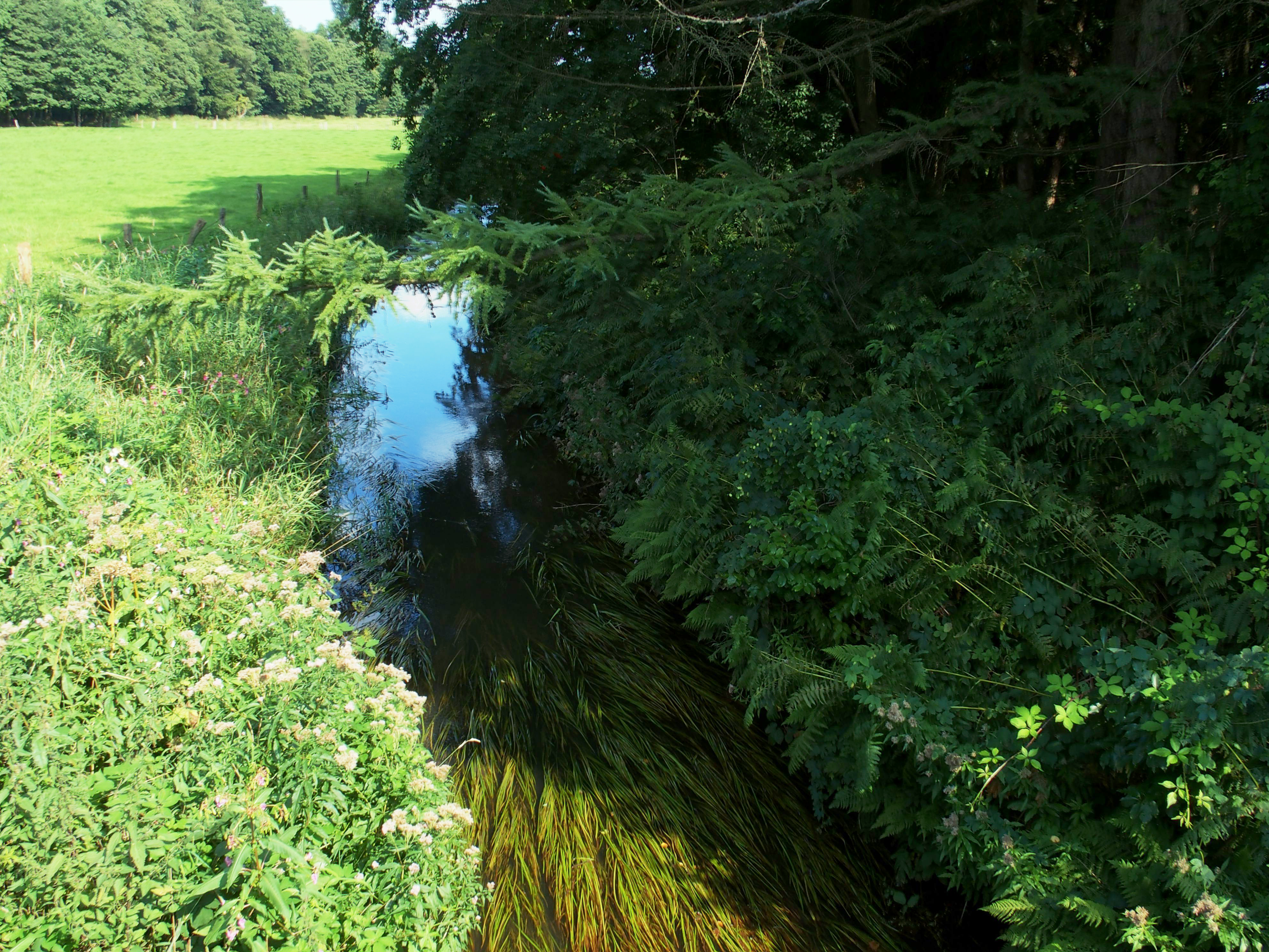 Gohbach in Specken, Kirchlinteln municipality, overgrown at this time of the year